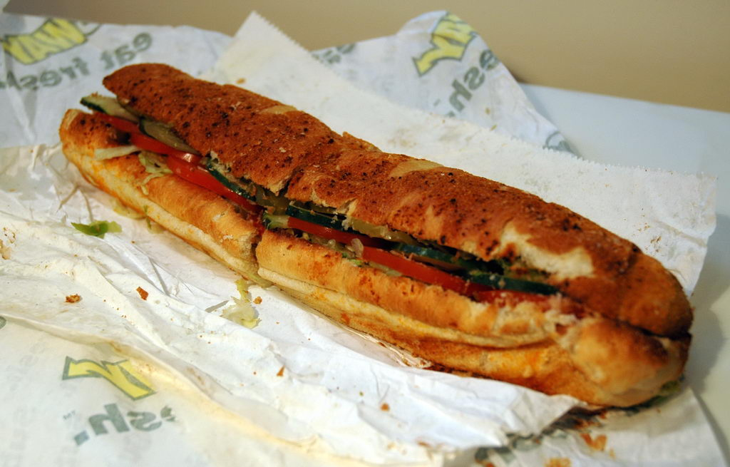 Subway's B.M.T..